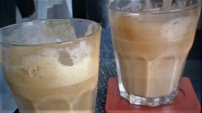 This presents a home made ice coffee, made with caramel instant coffee, milk, sugar, boiling water and ice.